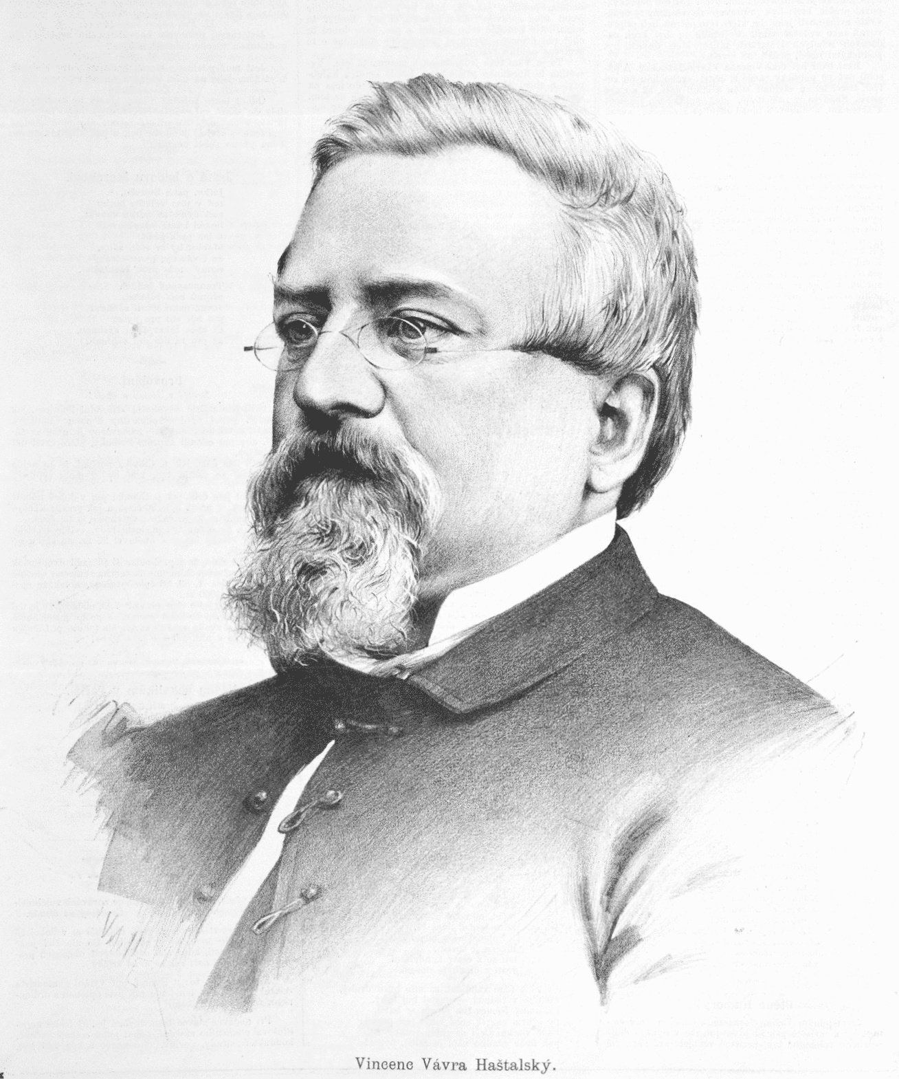 Vincenc Vávra Haštalský (1824-1877), Czech journalist, translator and participant in 1848 revolution